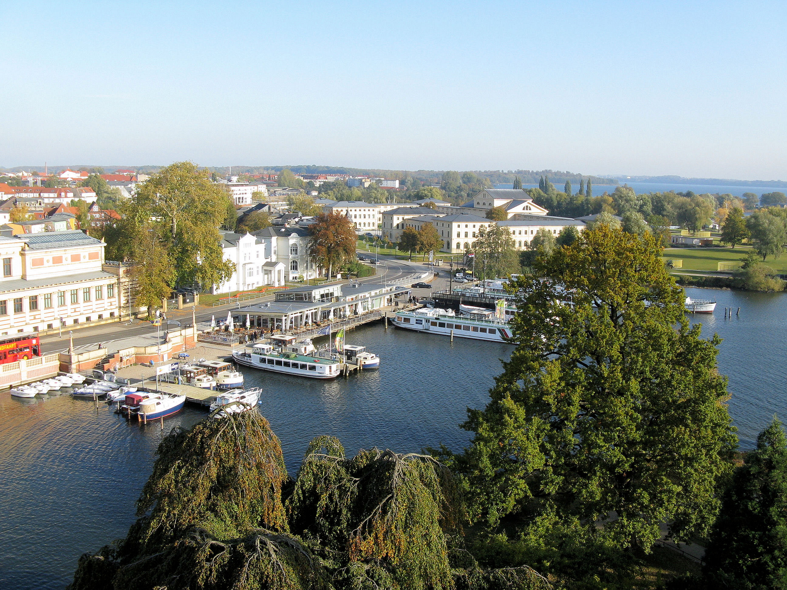 Pier of White Fleet and stable in Schwerin, Mecklenburg-Vorpommern, Germany